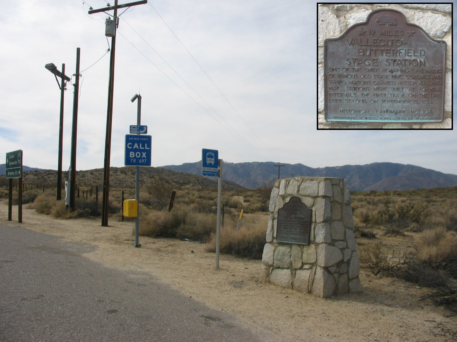 Scissors Crossing and Vallecito-Butterfield Stage Station monument